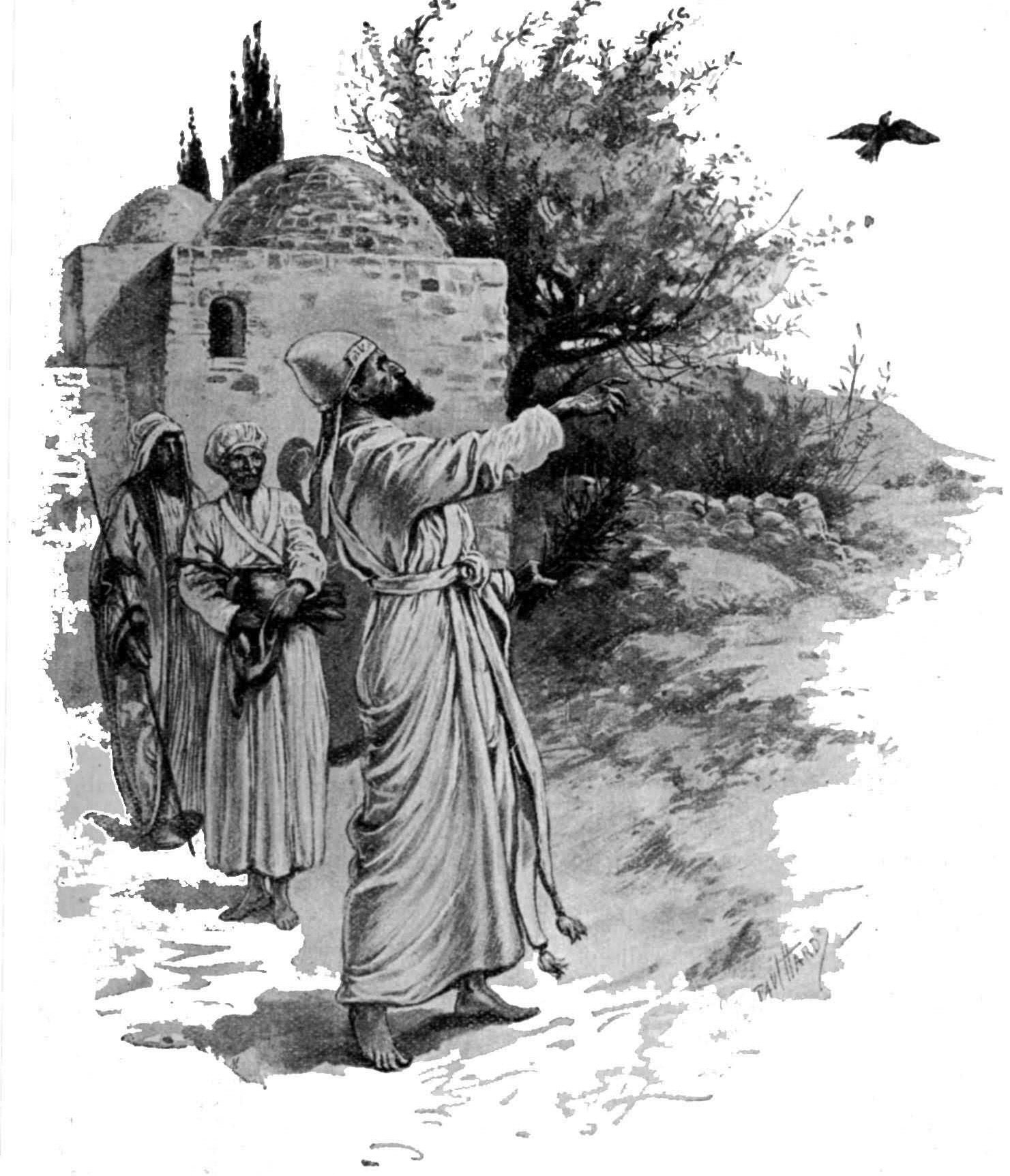 "Let go the living bird." Leviticus 14:53. Illustration by David Paul Frederick Hardy (1862-1942), active 1890-1910